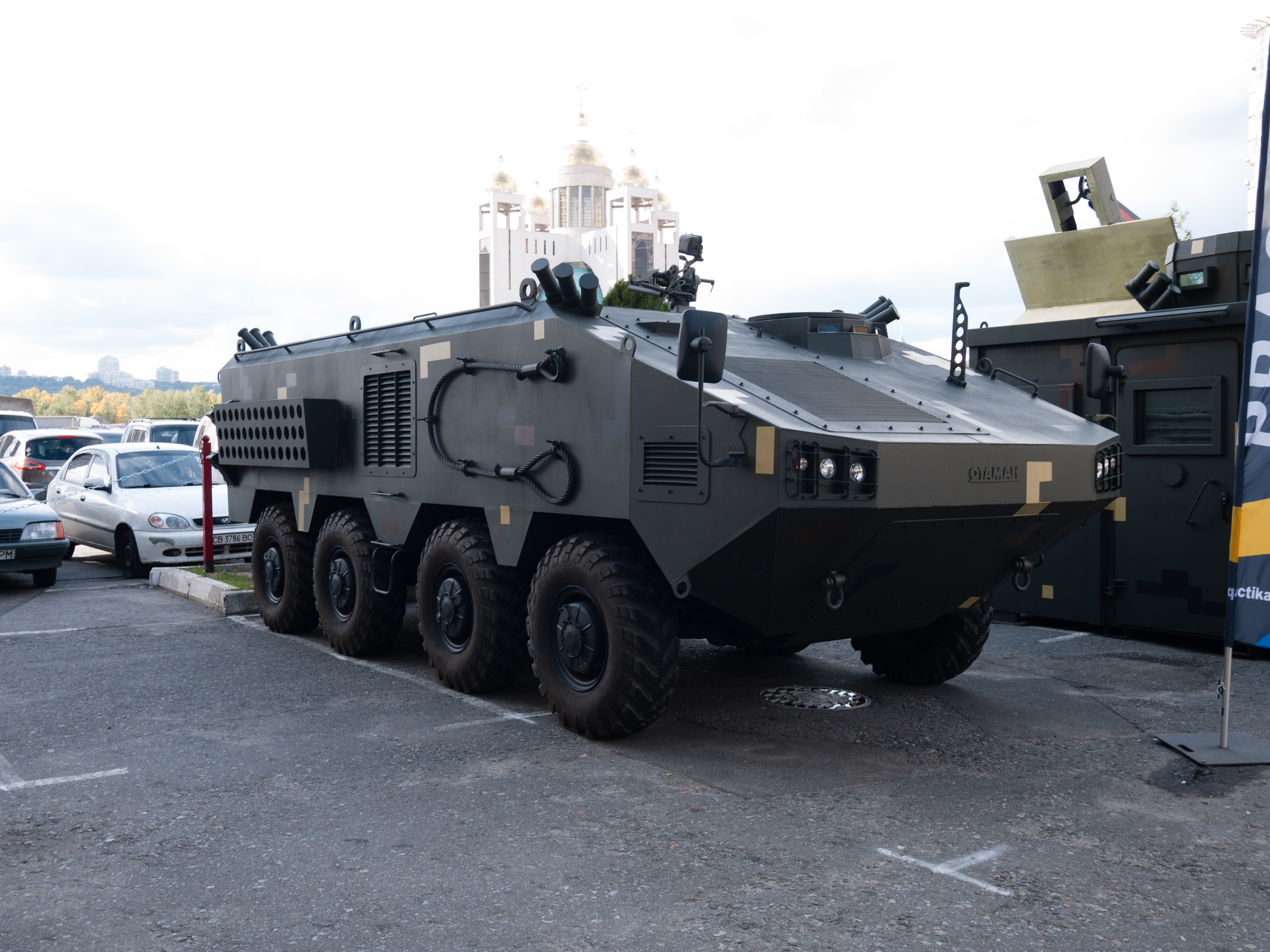 Otaman 8x8 APC (Ukraine)